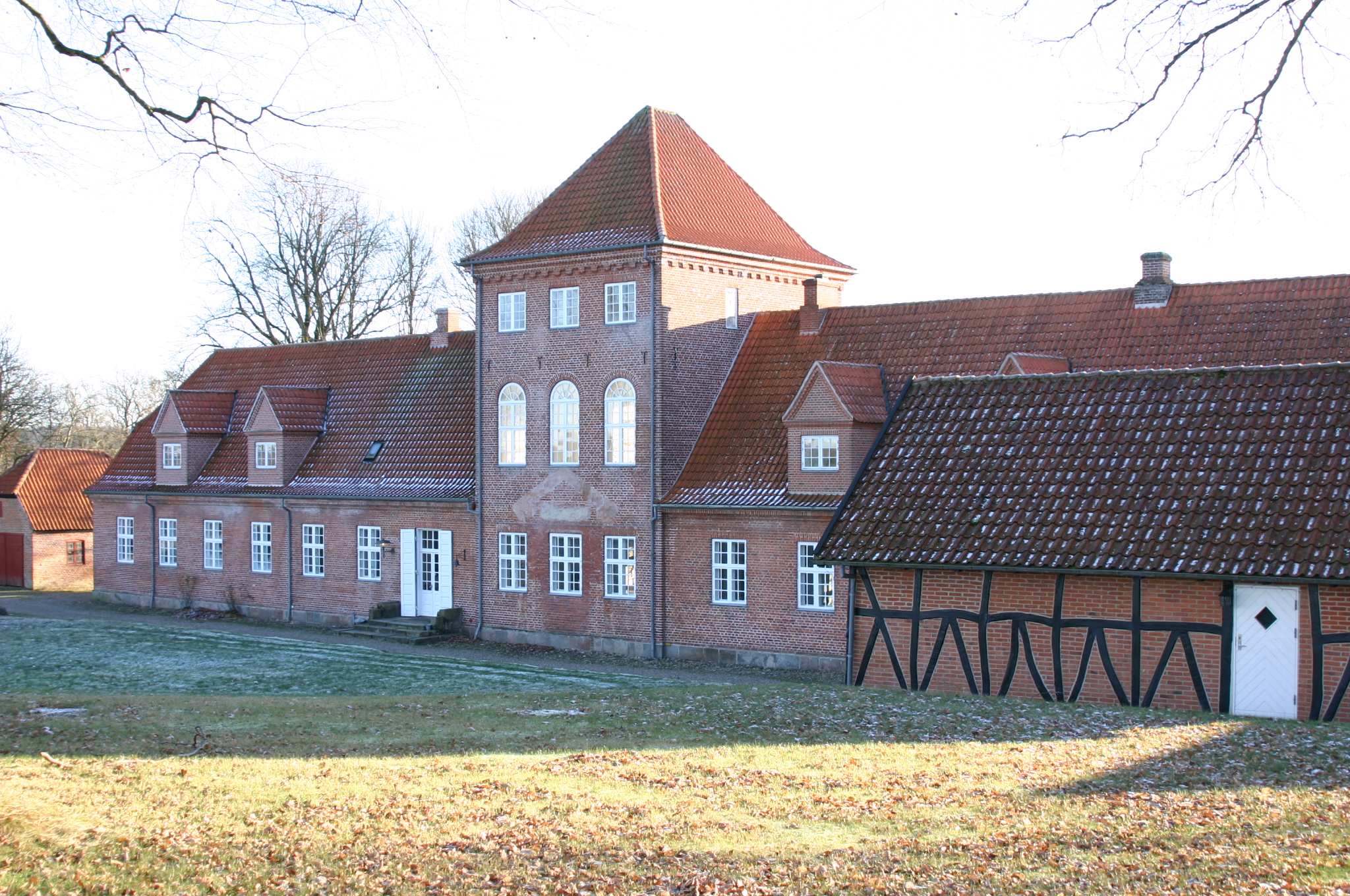 Hald Hovedgård. Manor House SW of Viborg, Denmark. Built 1787. Houses now the Danish Writer- and Translator Center.